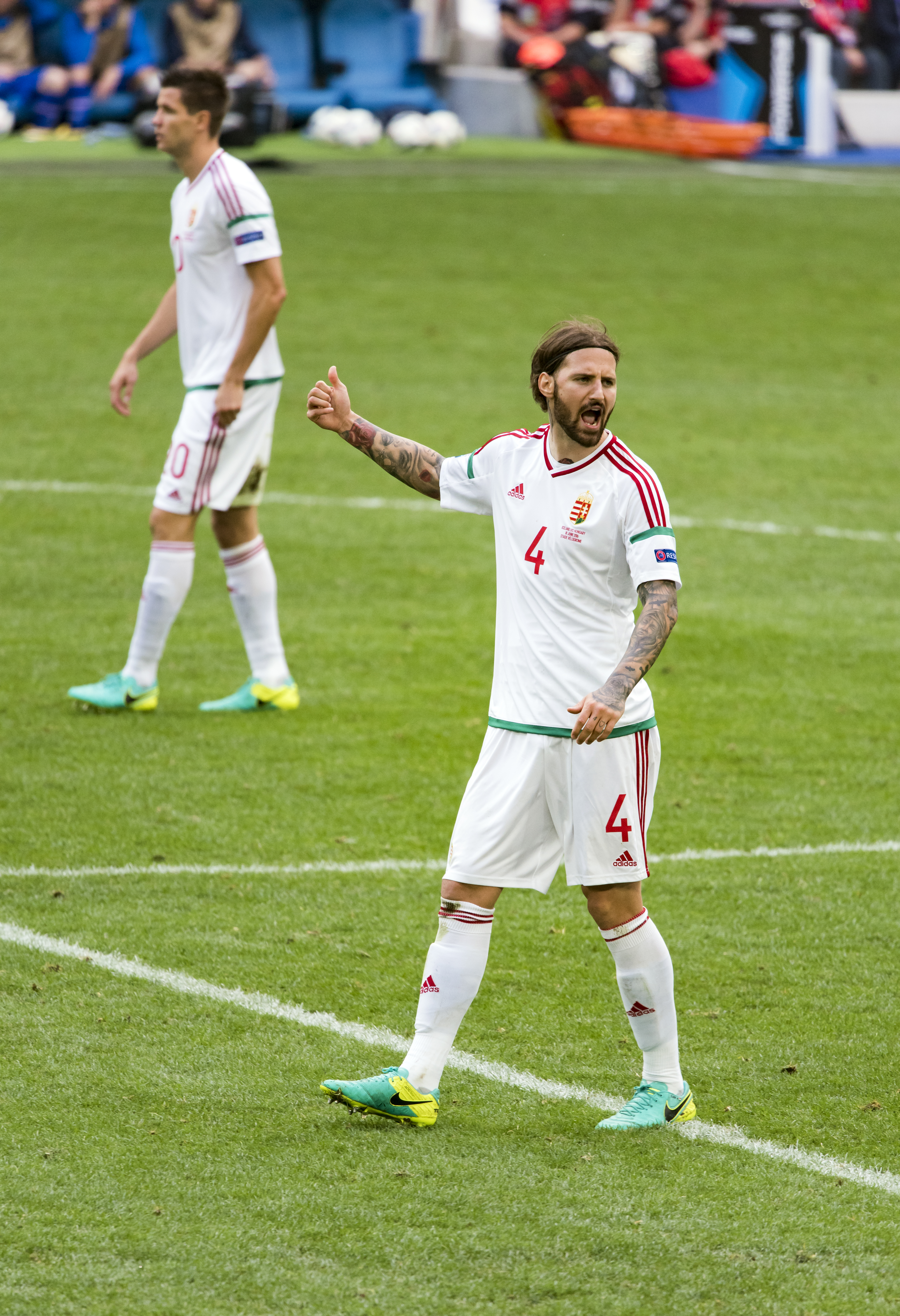 Tamás Kádár playing for Hungary in UEFA Euro 2016 match against Iceland